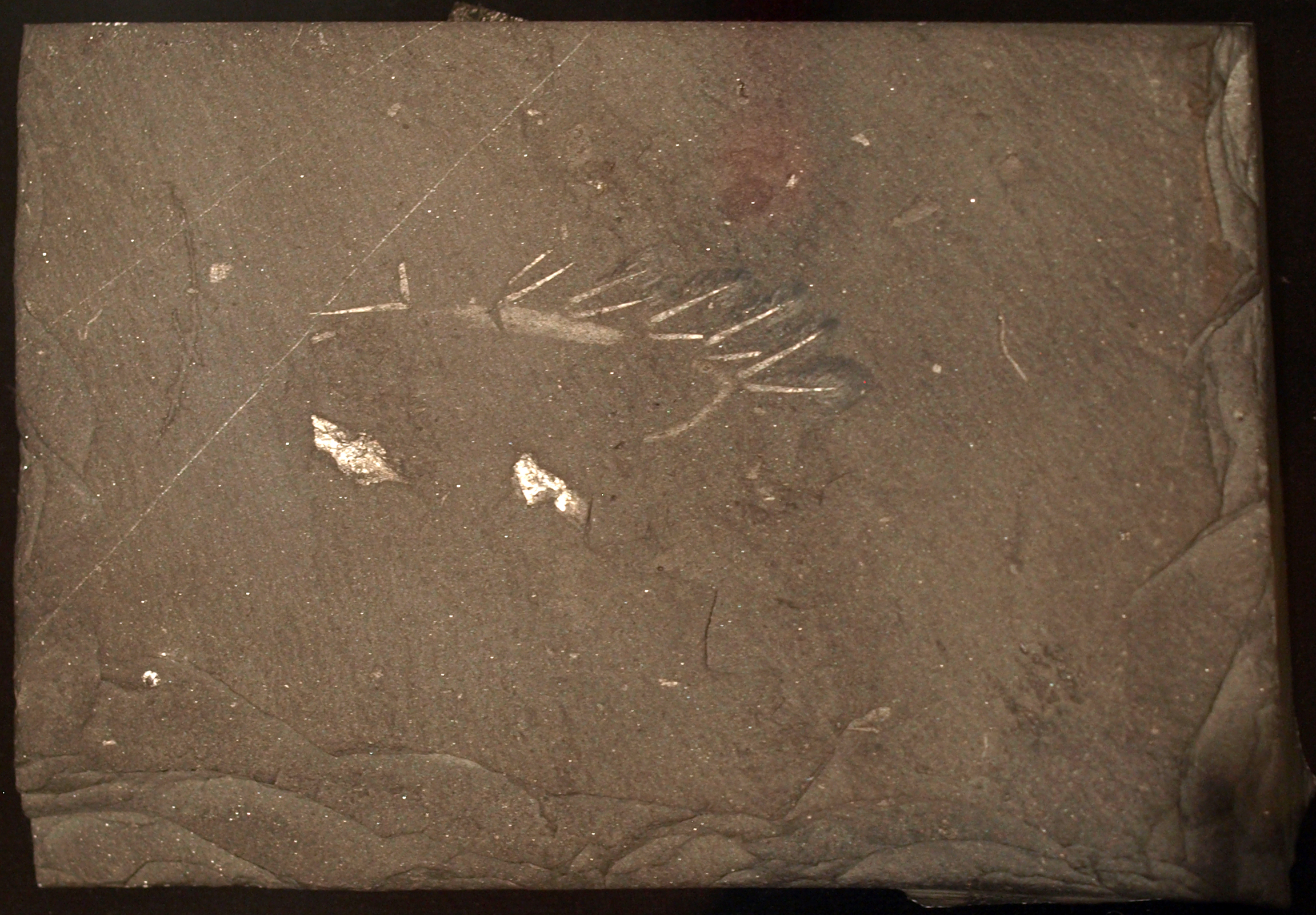 Specimen of Hallucigenia Sparsa on display in the Royal Ontario Museum, Toronto.